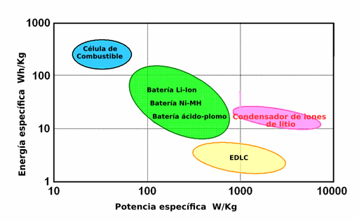 Ragone plot showing the comparison of the Energy Density vs. Power Density for Lithium Ion Capacitor with different technologies